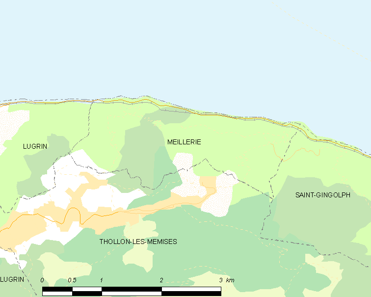 Map of French municipality Meillerie